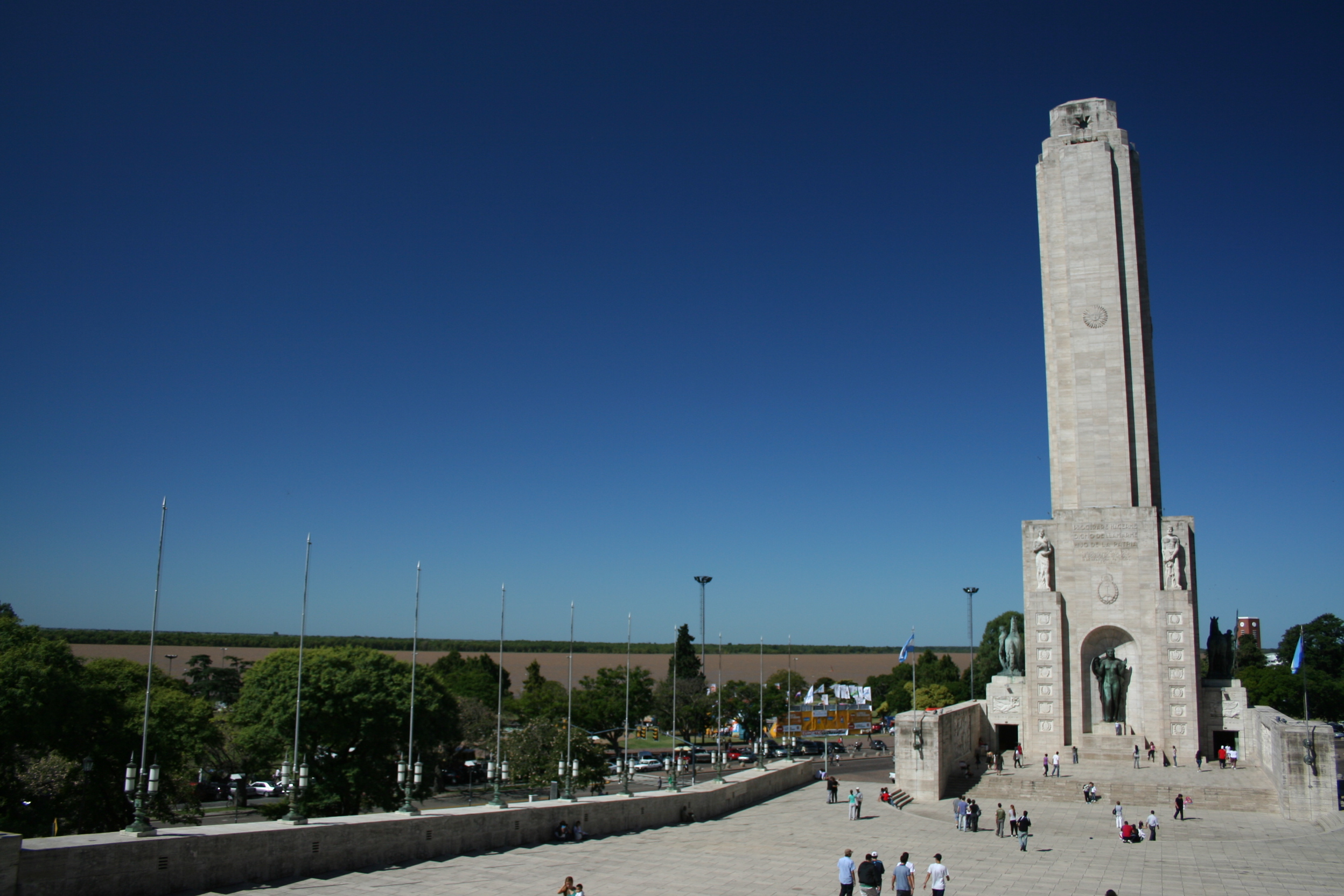 National Flag Memorial, Rosario, Argentina